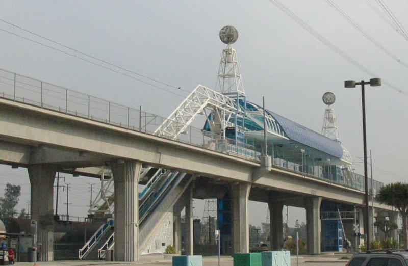 The Marine/Redondo station of the Los Angeles County Metro's Green Line